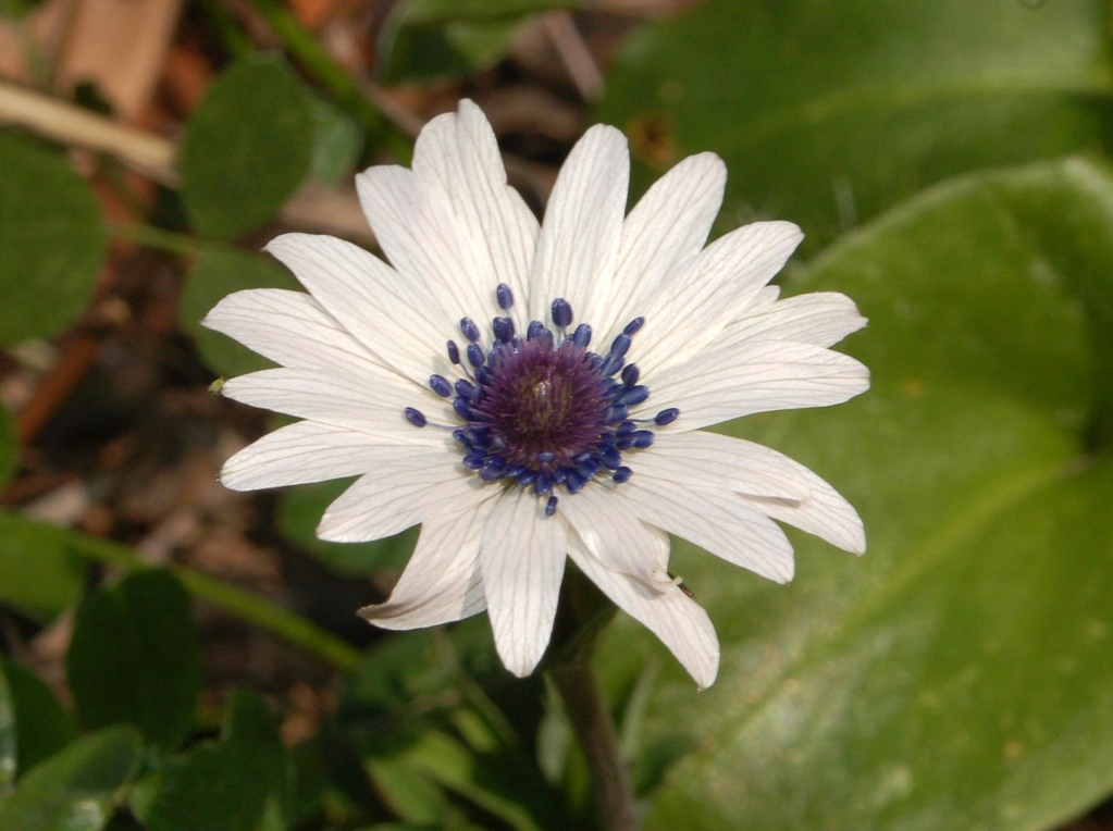 Anemone hortensis - Genova, Italy